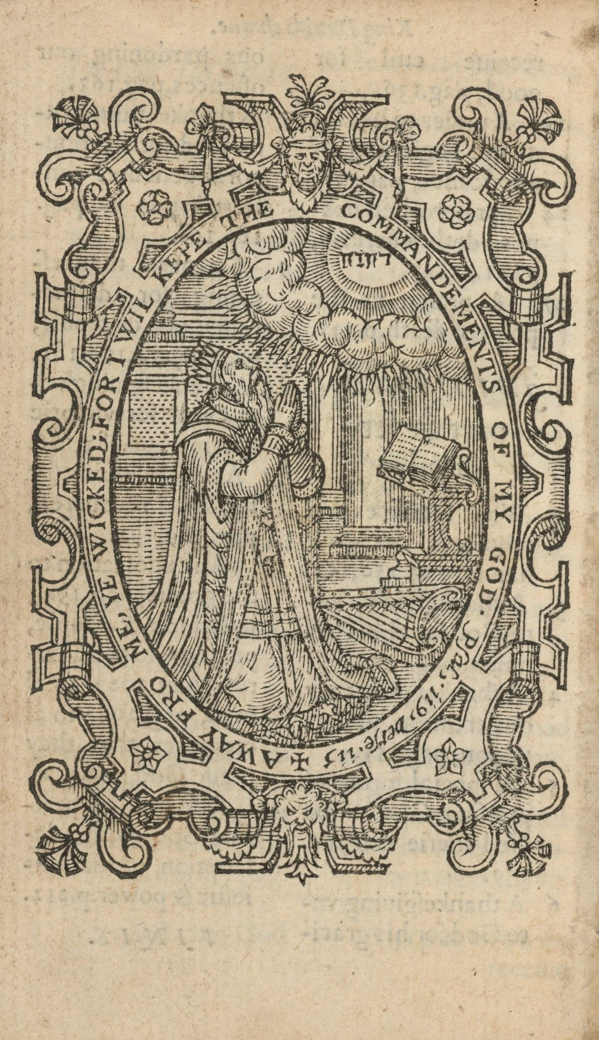 Image from A Golden Chaine, taken out of the rich treasurehouse the Psalmes of King David: also, the pretious pearles of King Salomon: published for the adorning of al true Christians which are the right nobilitie, against the triumphant returne of our blessed Sauiour, which is nigh at hand, London: 1579, by Thomas Rogers (d. 1616). STC 21235, Houghton Library, Harvard University